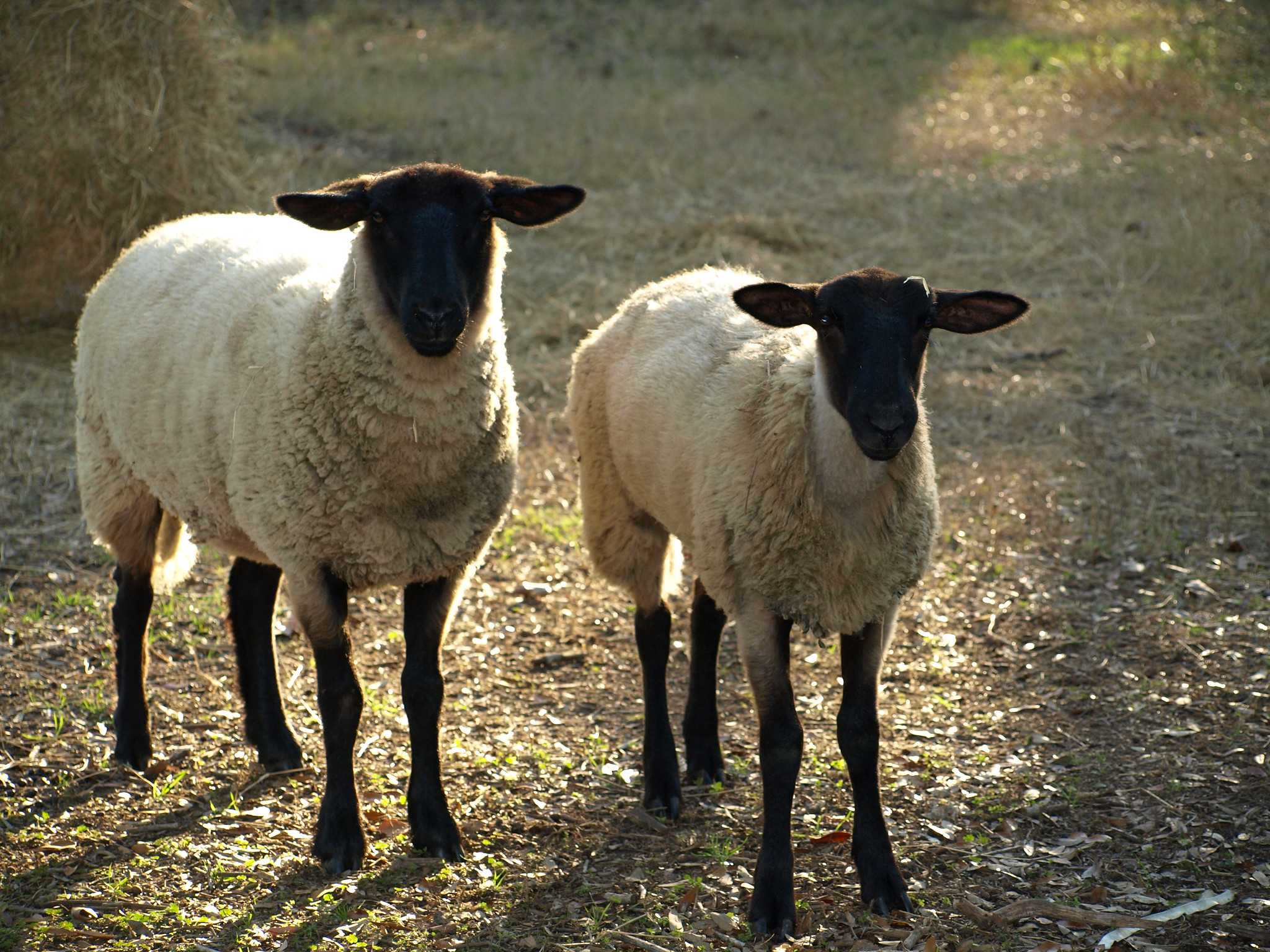 suffolk sheep posing by Jacquelyn J Wingate